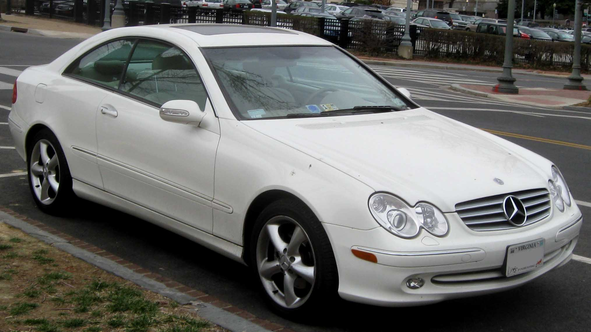 2003-2006 Mercedes-Benz CLK photographed in Washington, D.C., USA.